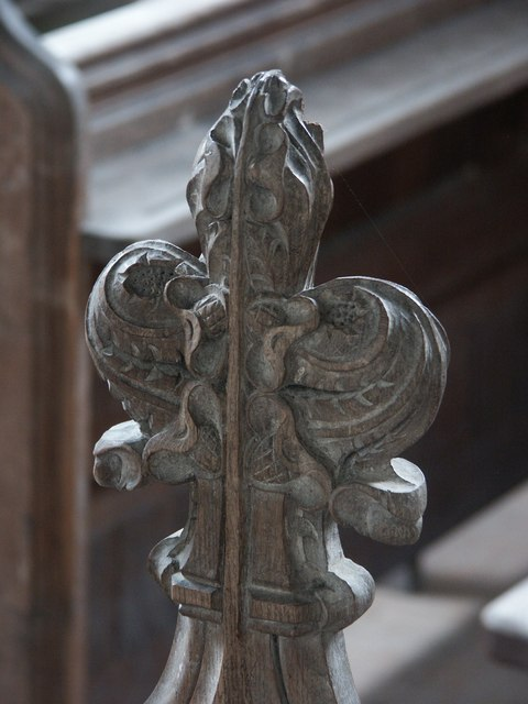 Interior of All Hallows, Clixby Poppyhead.